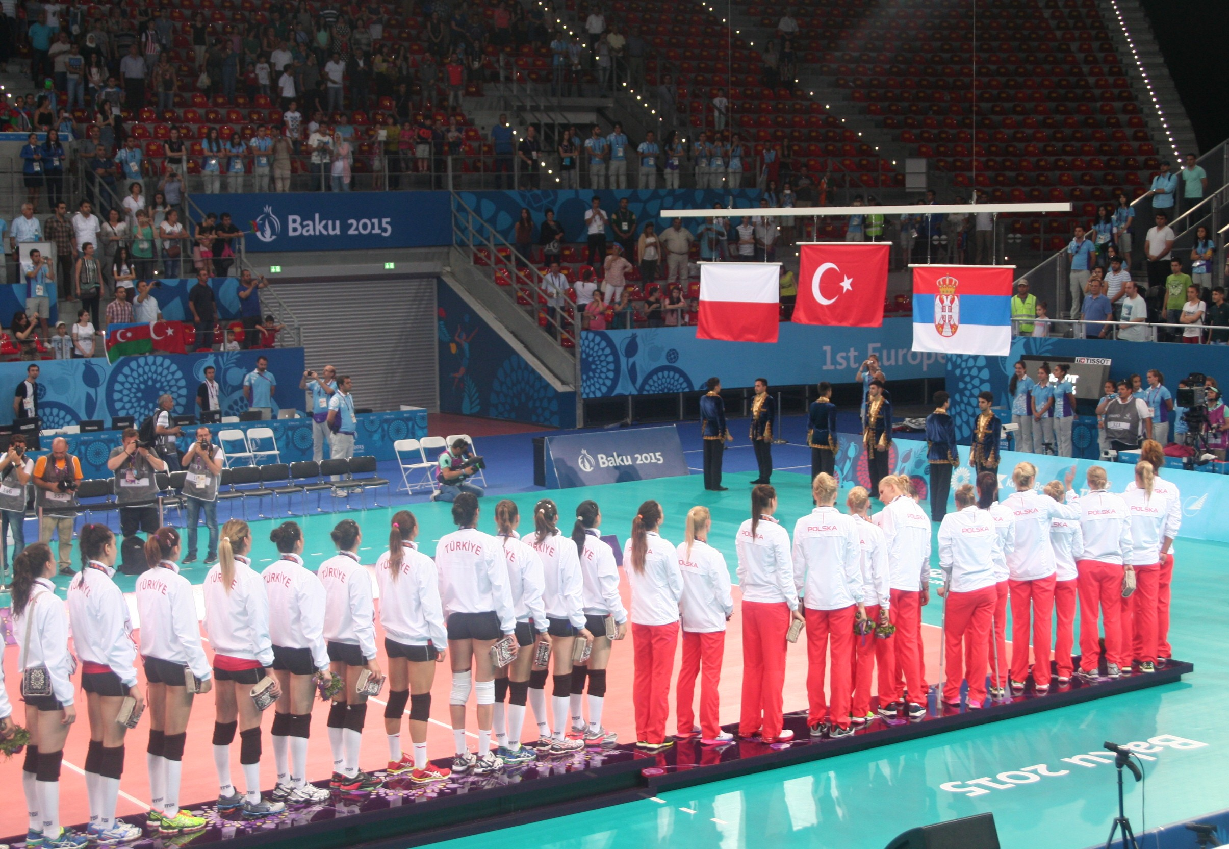 Turkey women's volleyball are the winners of the 2015 European Games